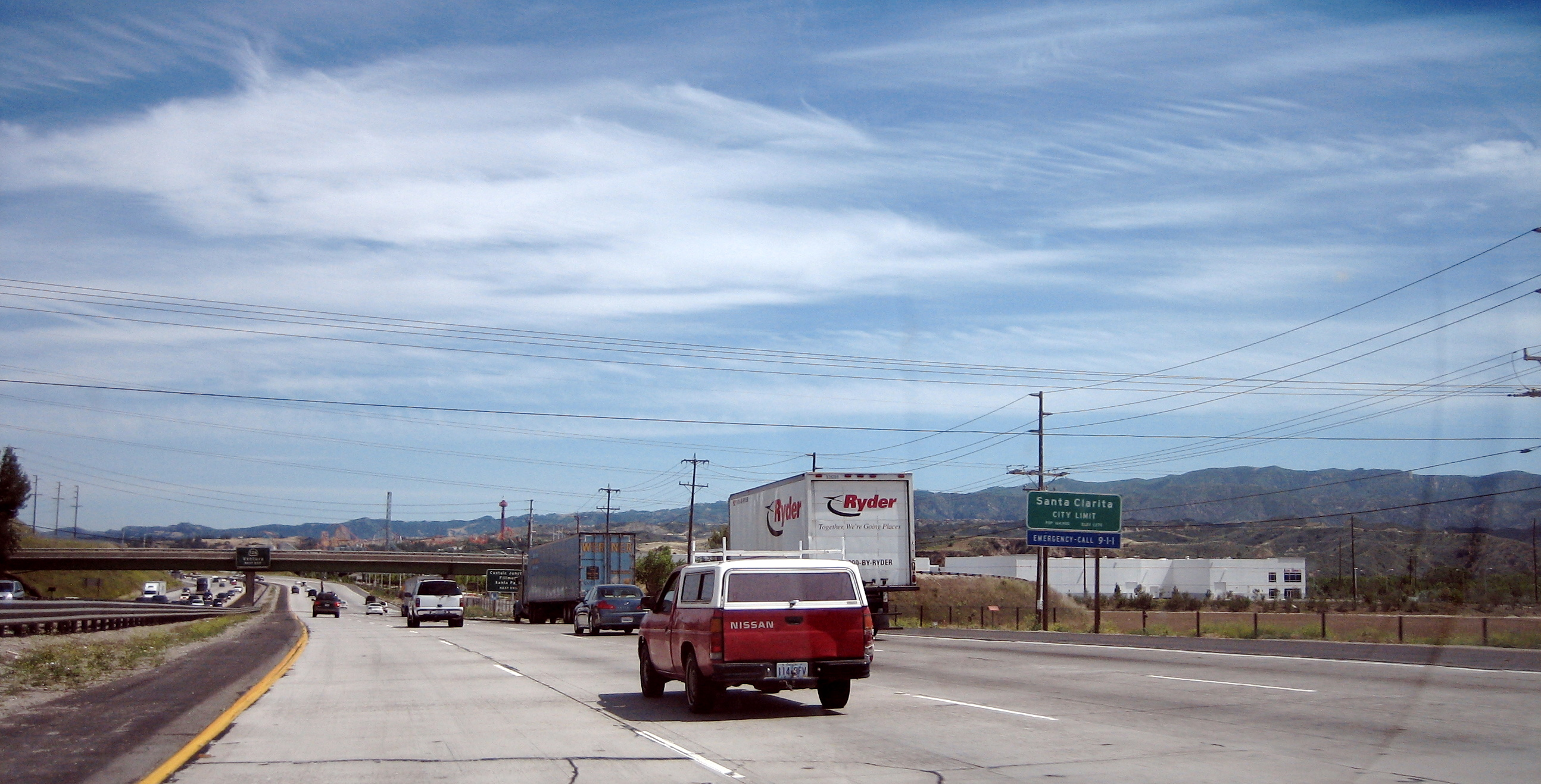 Traveling south on the I-5 freeway, and entering Santa Clarita California.